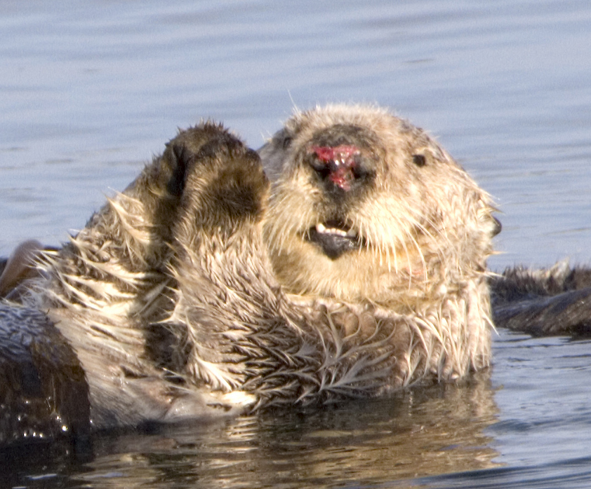 Sea otters in Morro Bay channel, near Morro Rock, Morro Bay, CA . Notice that the female in the front exhibits a bloody nose from mating where the male grabs her. Tues. 29may2007 - first decent waves in weeks - Canon 20D with 300mm IS f/2.8 lens with 2X II tele-extender for 600mm, on a sturdy tripod - Photo by Mike Baird sea otter, mammal, 29may2007, mikebaird, "morro rock"